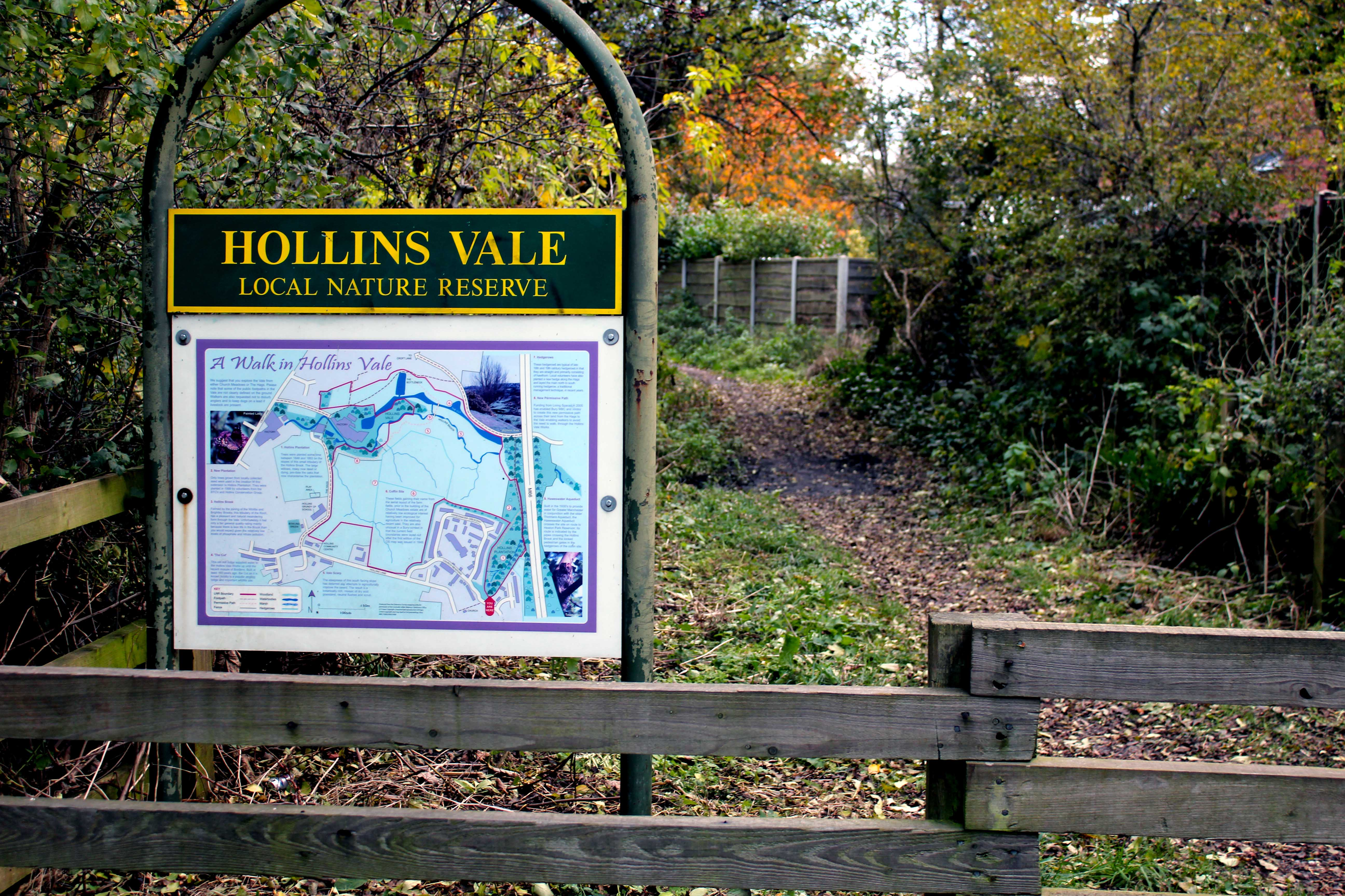 The Chuch Meddow enterance to Hollins Vale Nature Reserve, Unsworth.